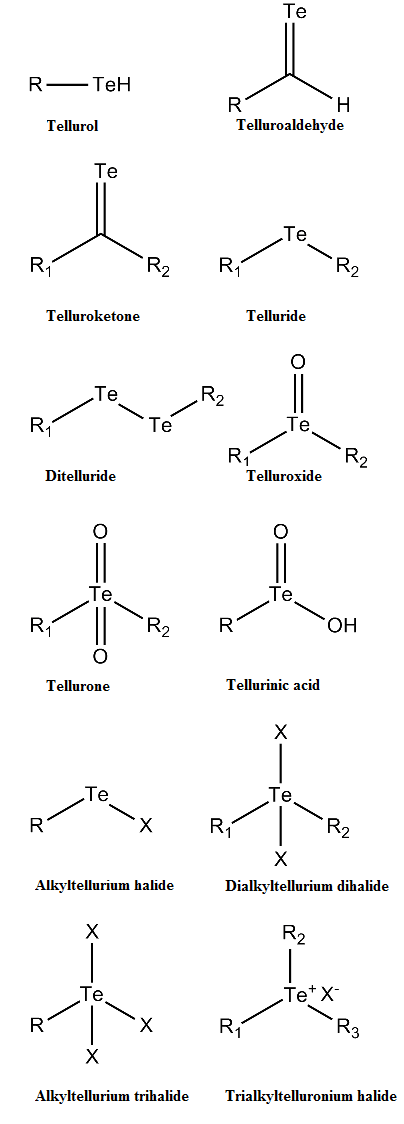 General structures of the most common organotellurium compounds. Structures drawn with ChemBioDraw Ultra 12.0